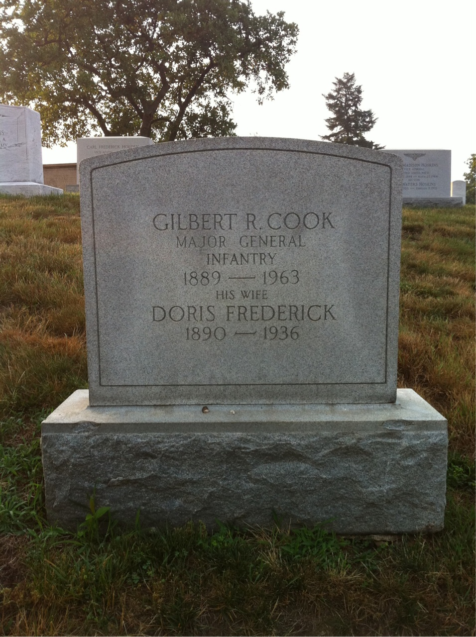 Grave of Gilbert R. Cook at Arlington National Cemetery